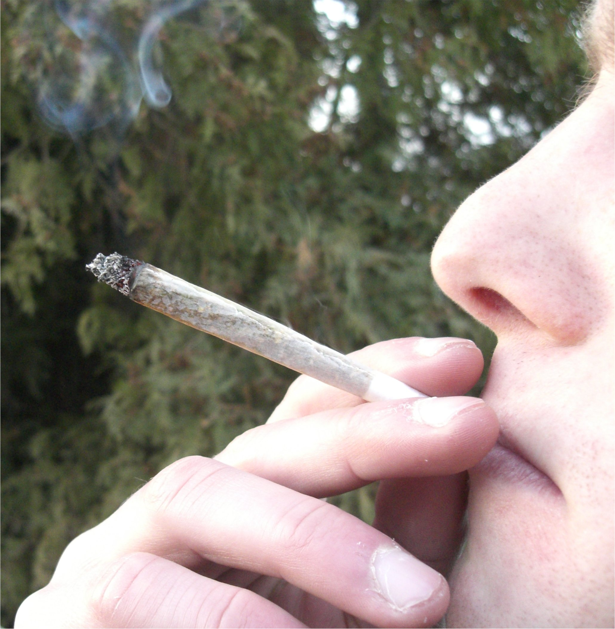 Burning joint, Czech Republic